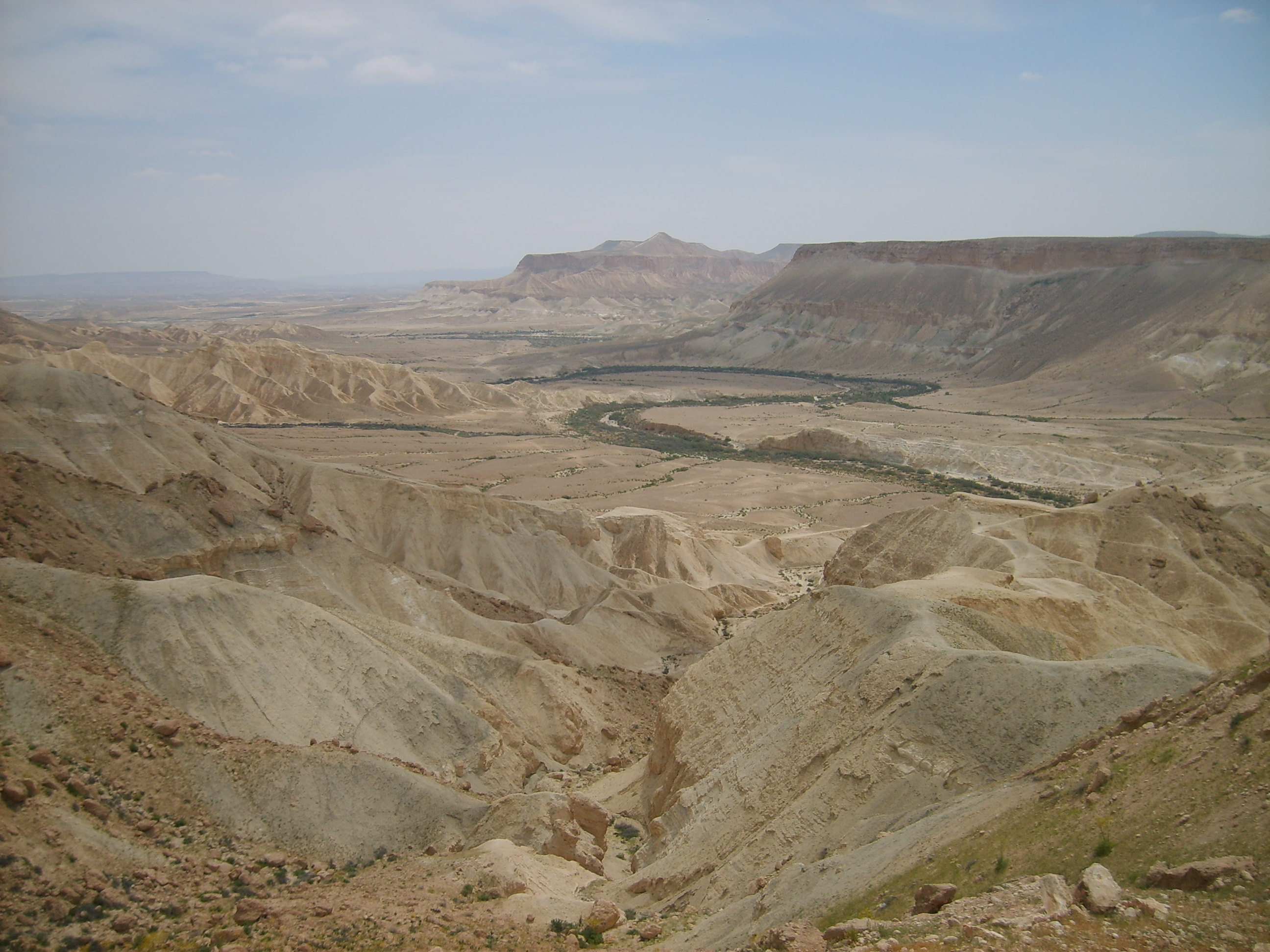 View at Nahal Zin/Wadi Zin (seen from David Ben Gurions Burial Site near Sde Boker - eastern view).